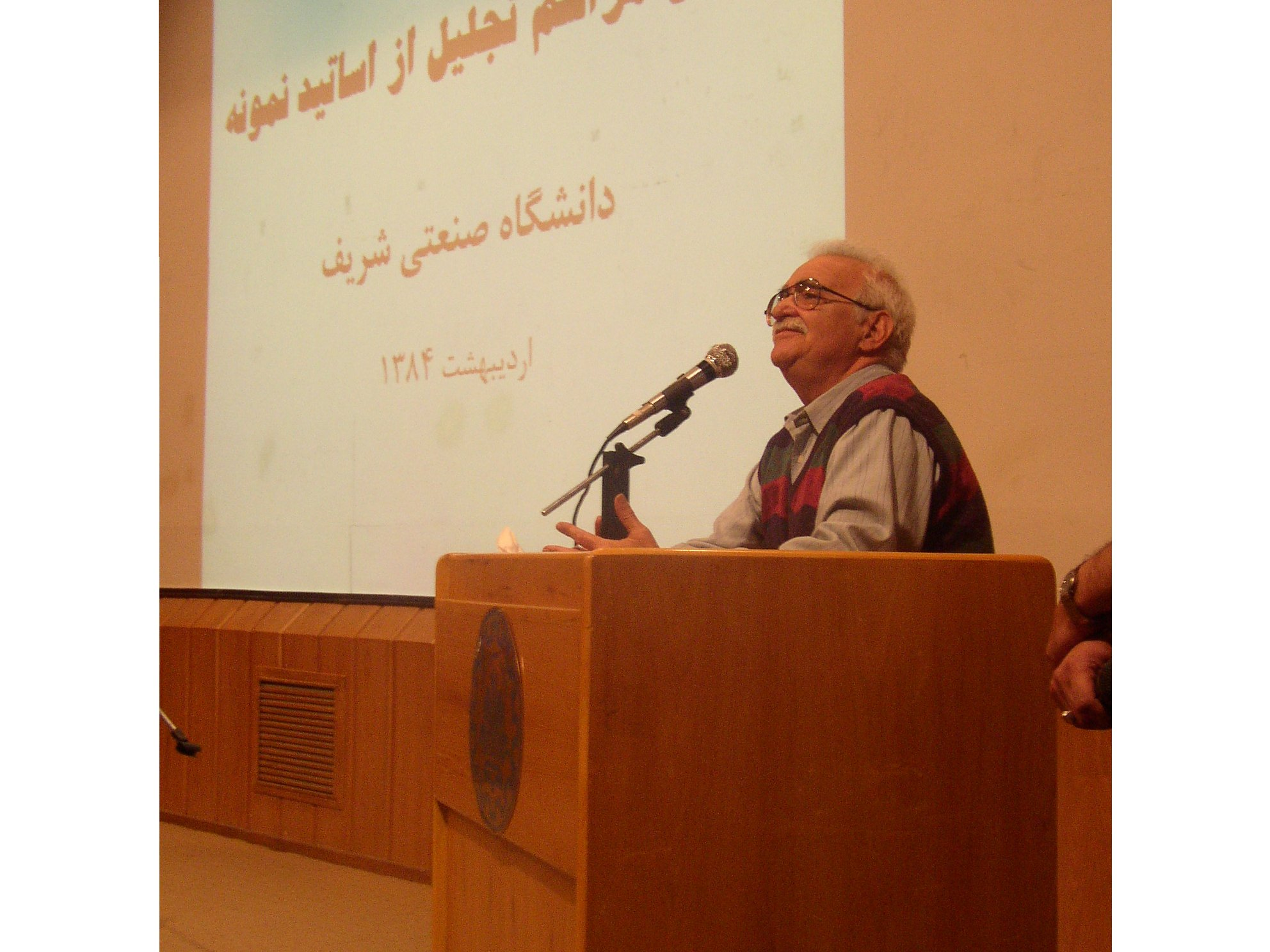 Dr Bahman Mehri, Proffessors appreciation ceremony, Sharif University.